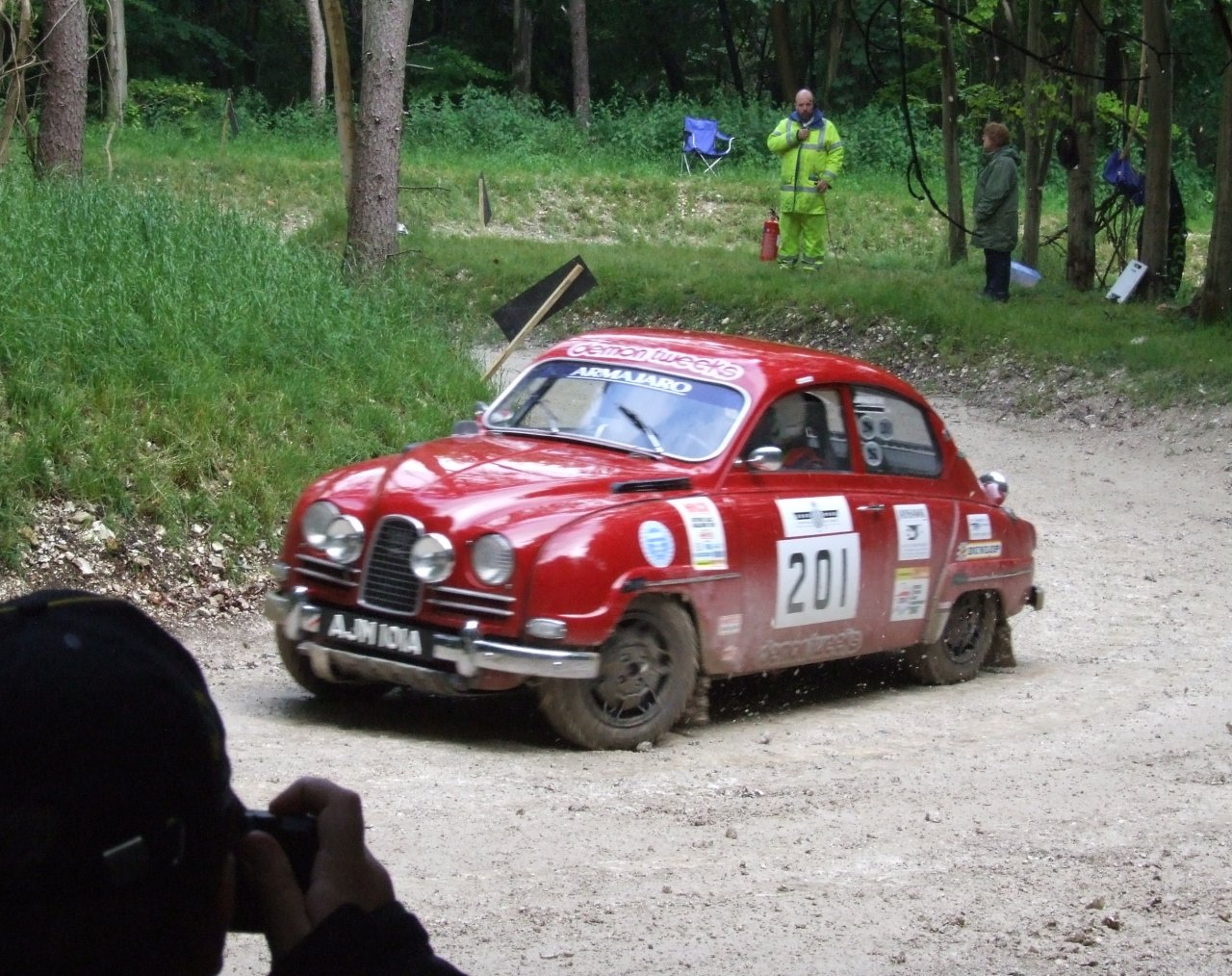 Saab on Rally stage at Festival of Speed 2007 I want to say this is the Saab 93 but I'm not sure.